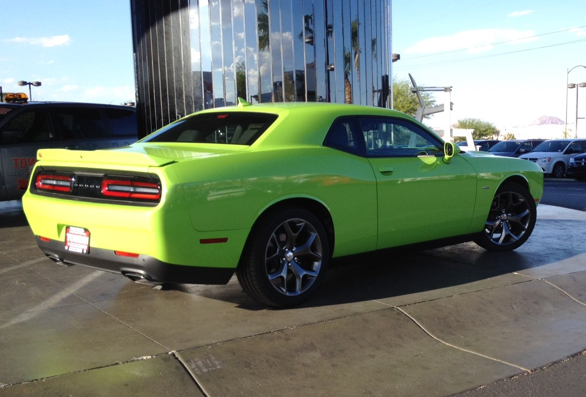 2015 Dodge Challenger RT Sublime